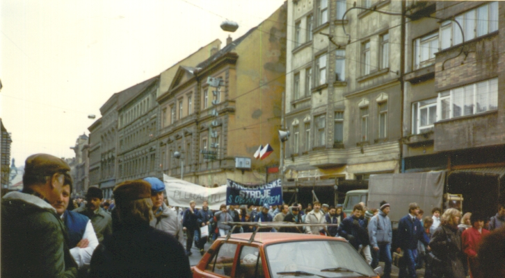 Street protest in November 1989, S. M. Kirova street (now Štefánikova street), Prague, CS